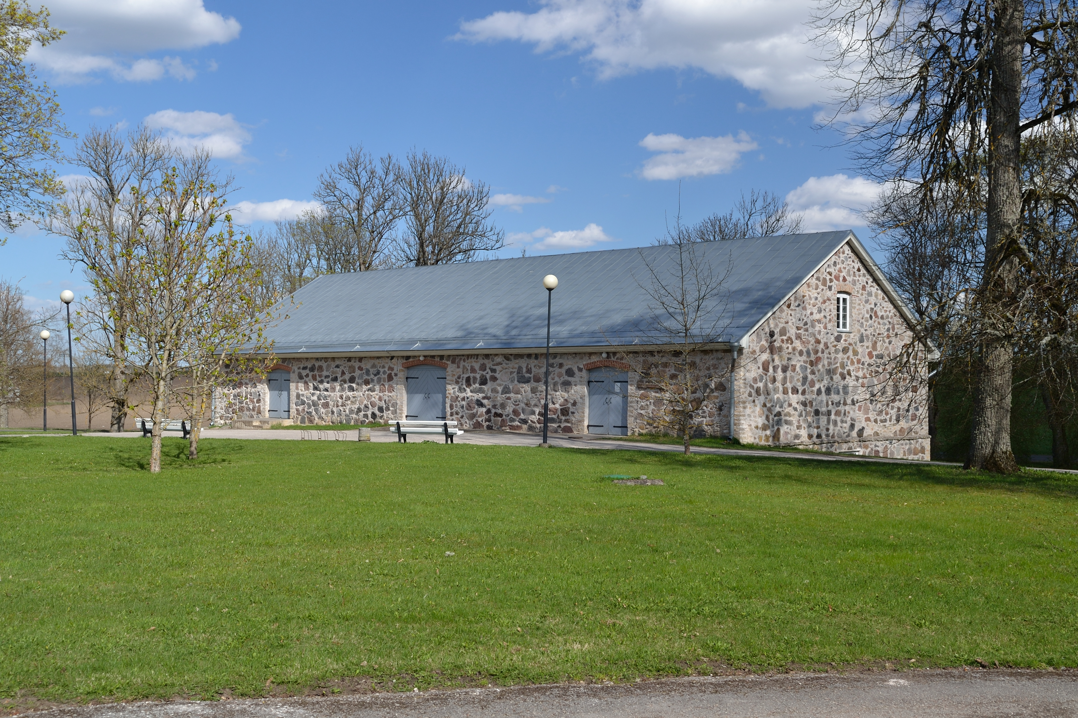 Albu manor granary